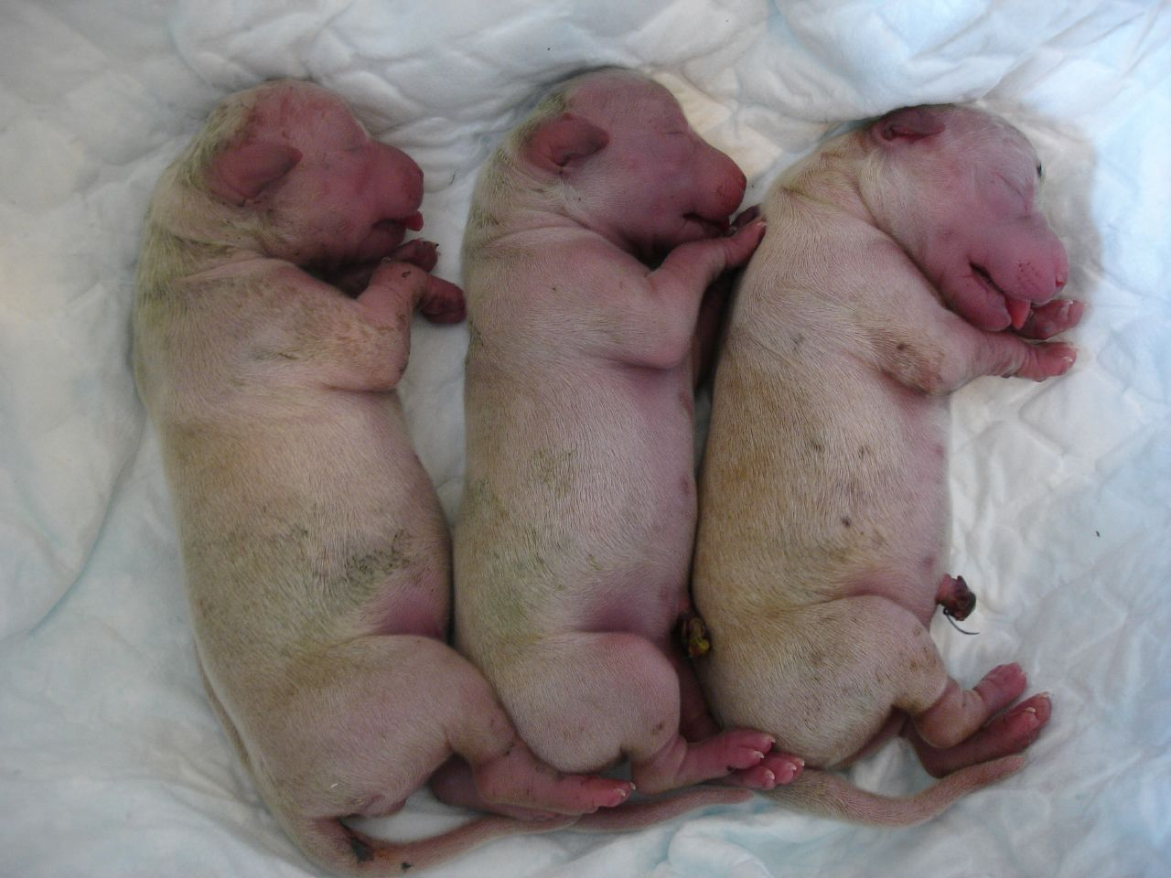 Newborn Golden Retriever puppies.